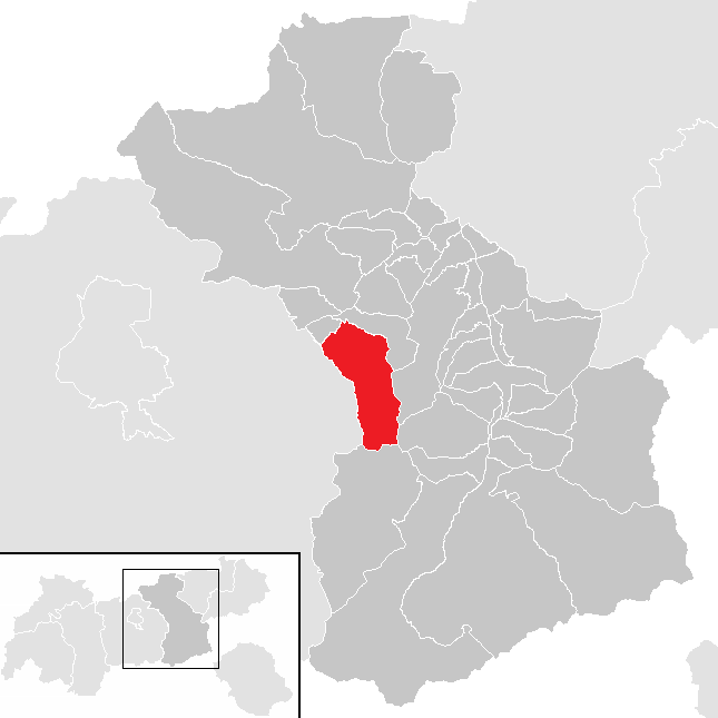 District Schwaz